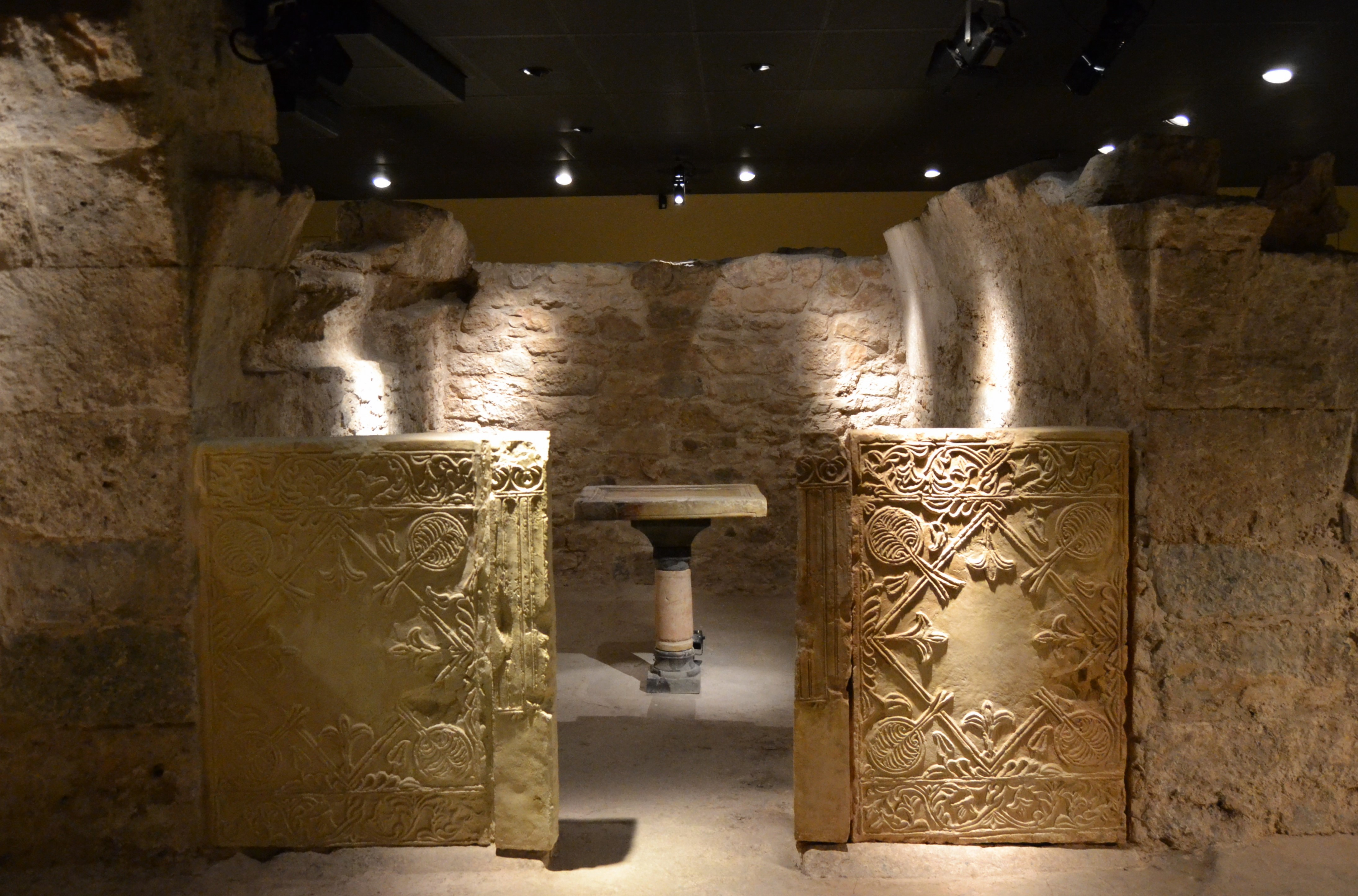 Archaeological Crypt of the prison St. Vincent Martyr, Valencia.